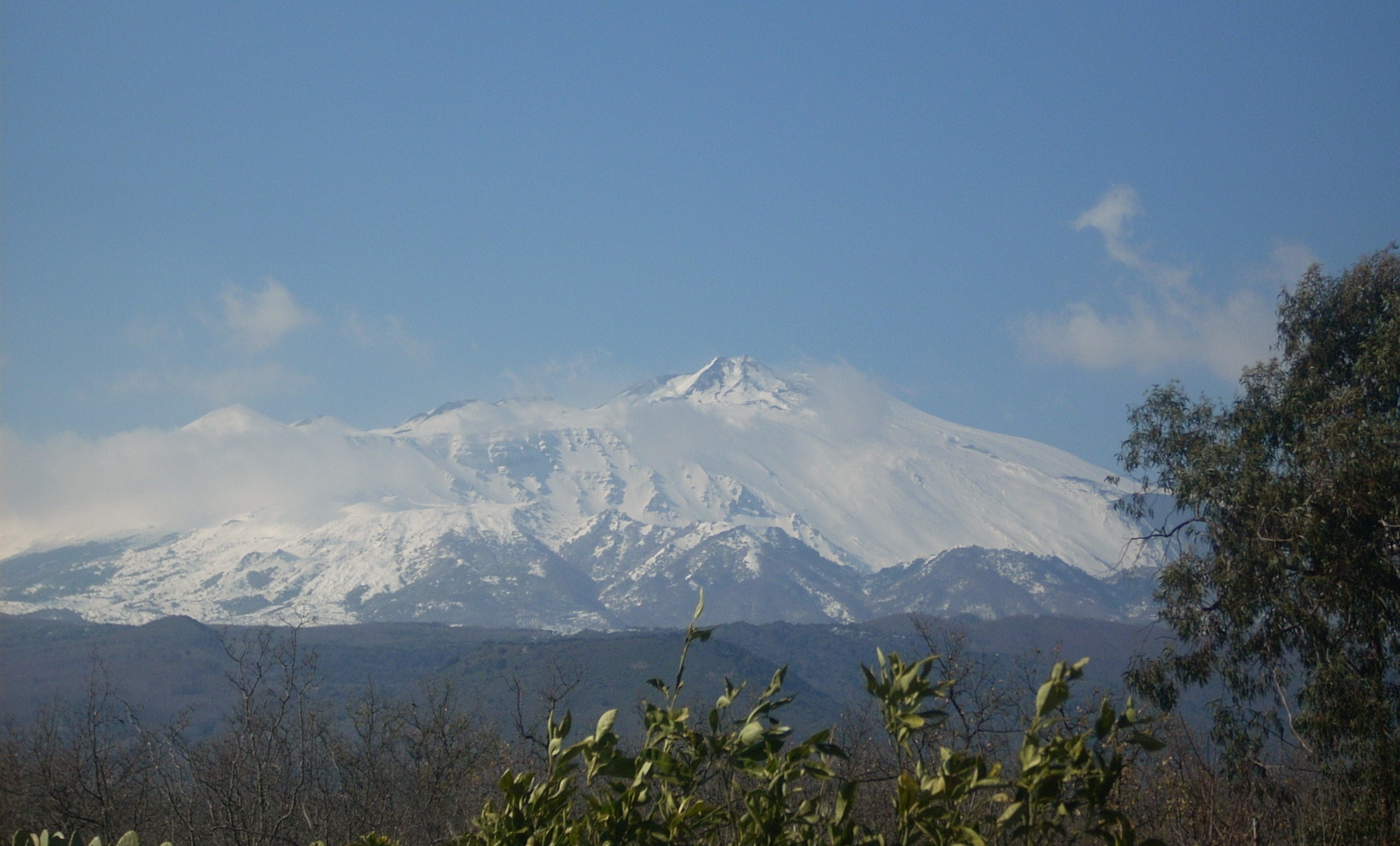 view of Mount Etna covered in snow